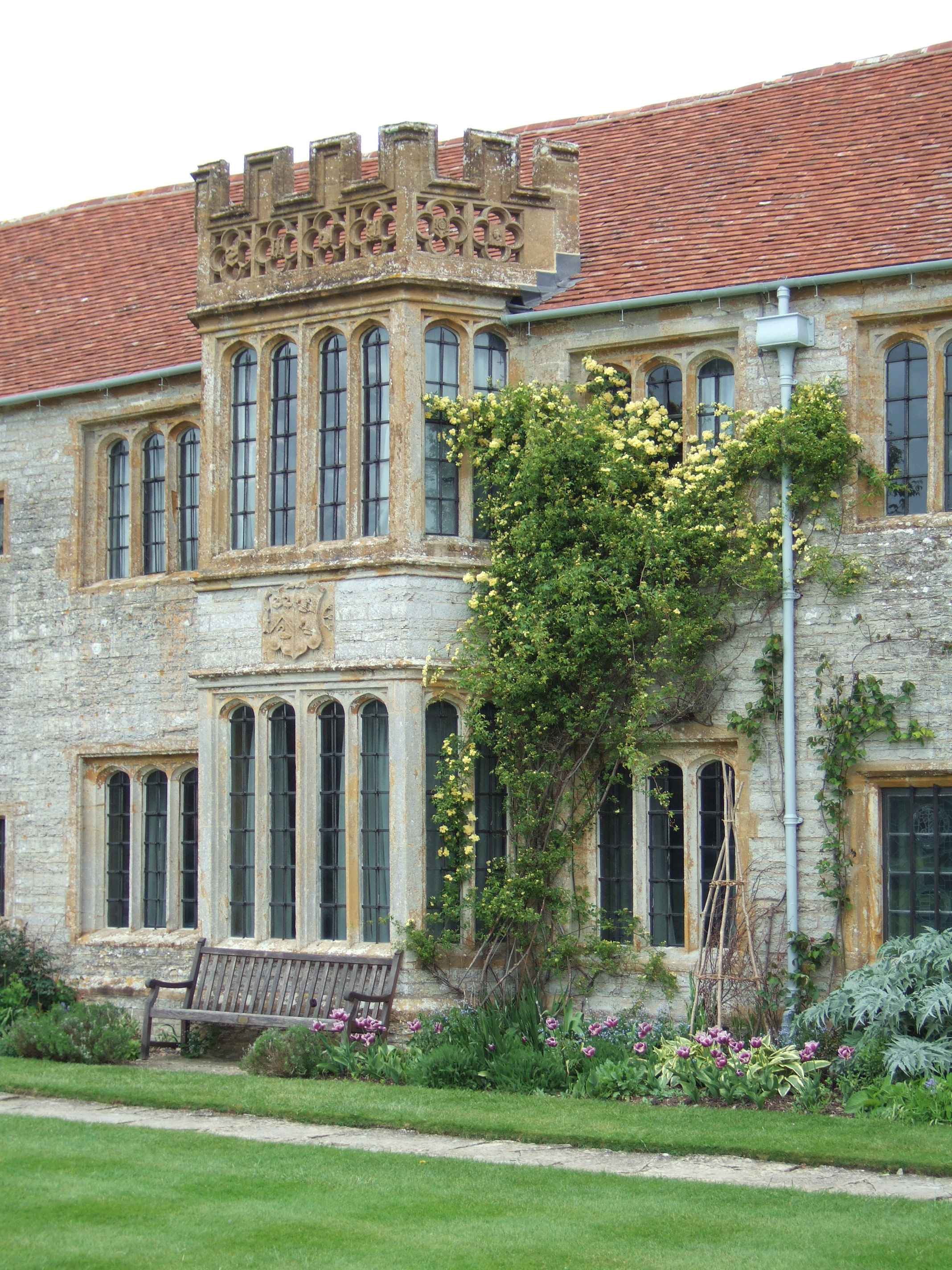 Lytes Cary, south front